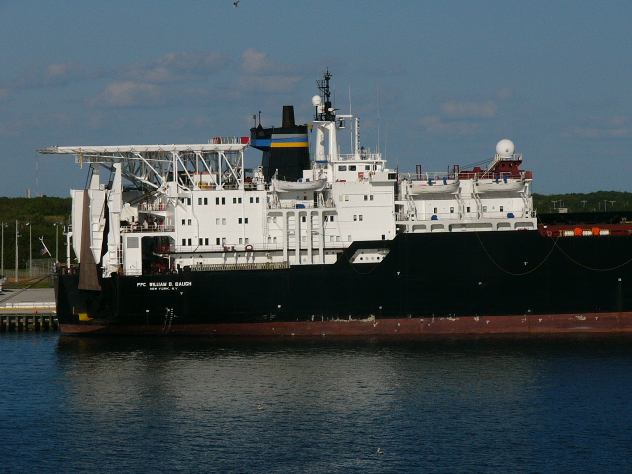 Close-up of PFC William B Baugh, docked in Port Canaveral, Florida in 2008.